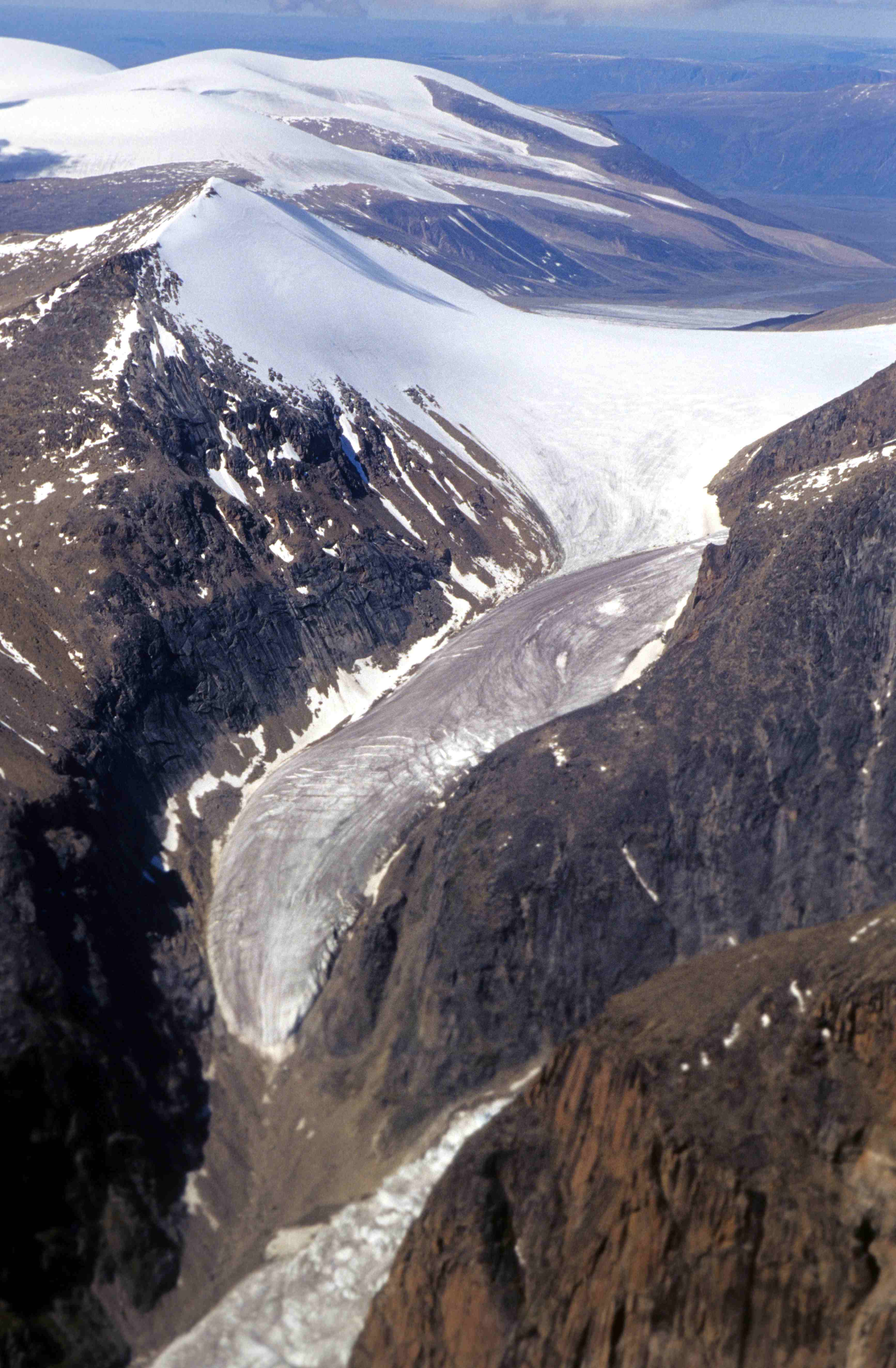 Auyuittuq National Park: Penny Ice Cap and tongue of a glacier